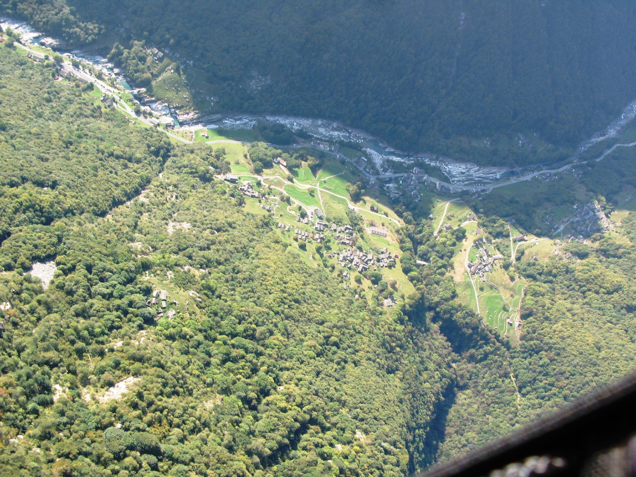 Brione, Ticino, Switzerland